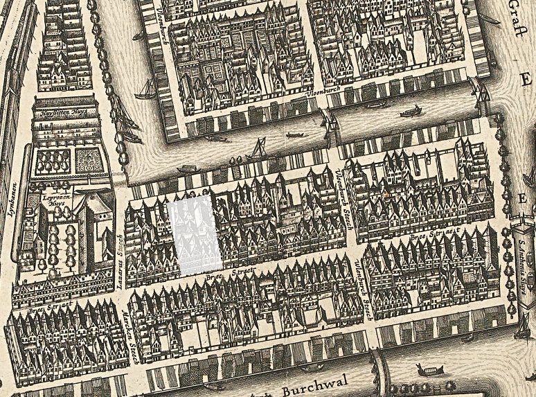 The Breestraat (currently Jodenbreestraat) in Amsterdam in 1625. The grey rectangle is the location of the current Mozes and Aaron Church. The Vloonburch Steech is now called Houtkopersdwarsstraat. North is bottom-right.